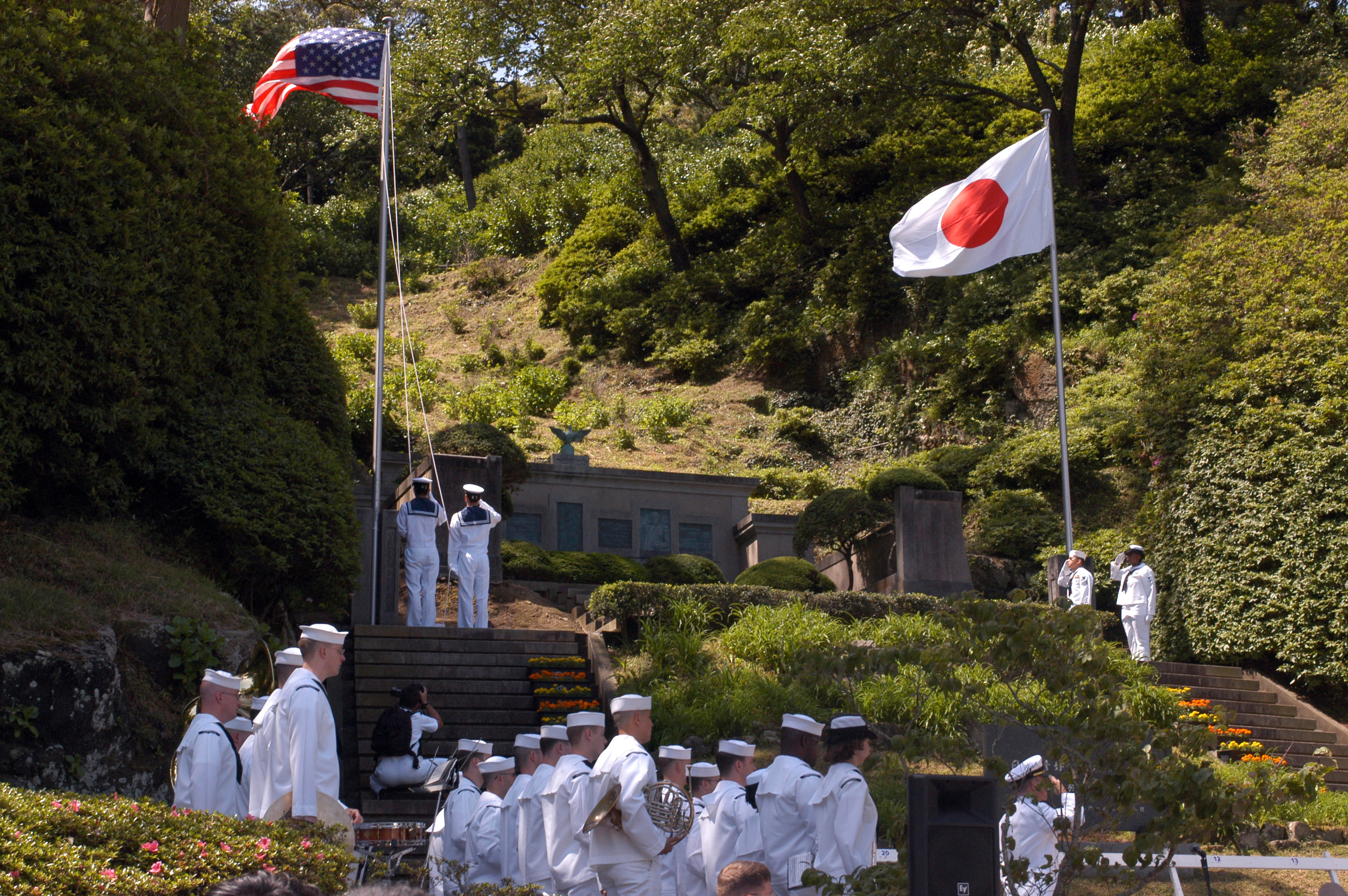 Shimoda, Japan (May 15, 2004) - Sailors render hand salutes and the U.S. Seventh Fleet Band stands at attention while Japan Maritime Self Defense Force Sailors raise the National Ensign during the official 65th Shimoda Black Ship Festival ceremony at Shimoda Park. The festival promotes the theme of peaceful relations between the Japanese and American people, and commemorates the 1854 landing of Commodore Matthew Perry and the signing of the Japanese-American treaty of trade and amity at Shimoda. This year's festival commemorates the 150th anniversary of that landing. U.S. Navy photo by Journalist 2nd Class Patrick Dille (RELEASED)